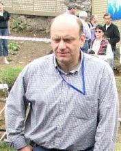 Minister of Education and Science Mr Alexandre Lomaia talks to campers about their impressions and the camp experience.